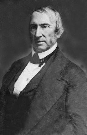 James McDowell, Governor of Virginia